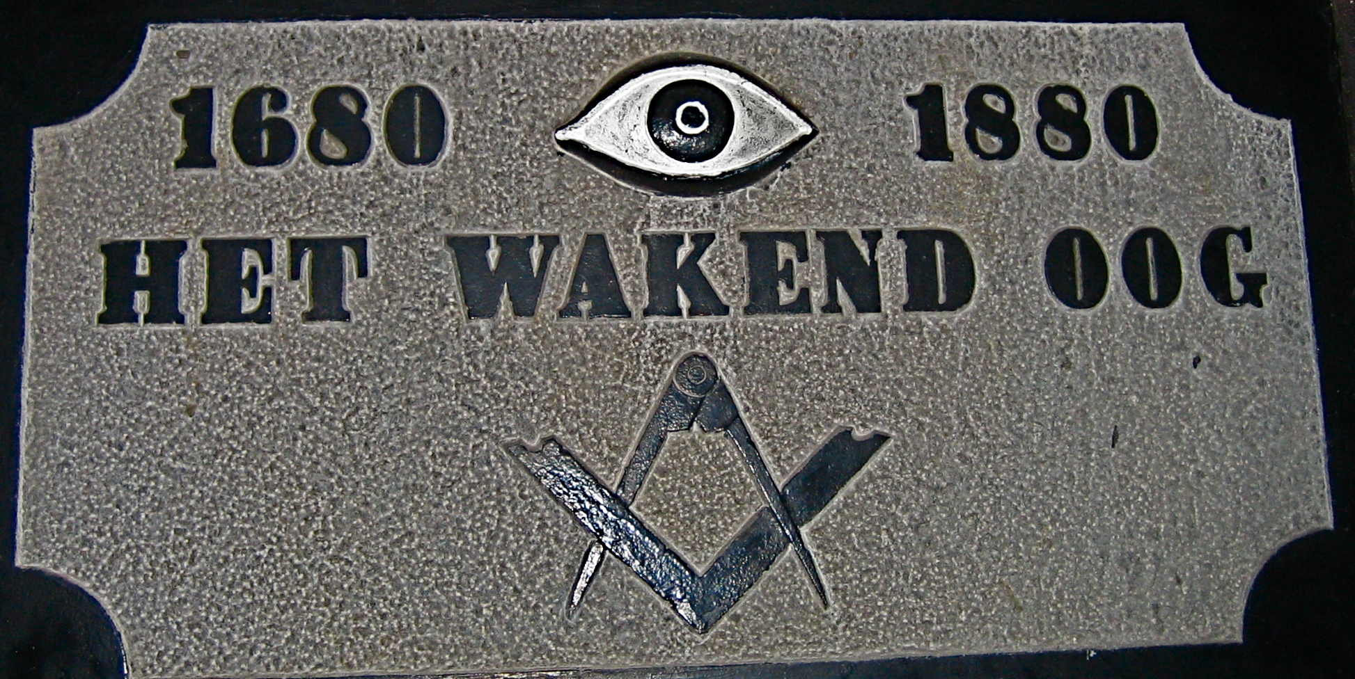 Part of entrance hall of Masonic Building "Het Wakend Oog" Island of Terschelling